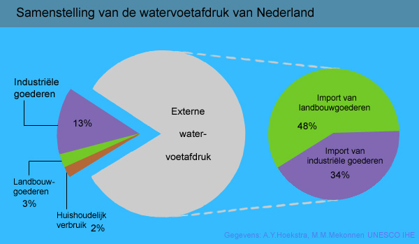 Diagram of the water footprint of the Netherlands, internal and external